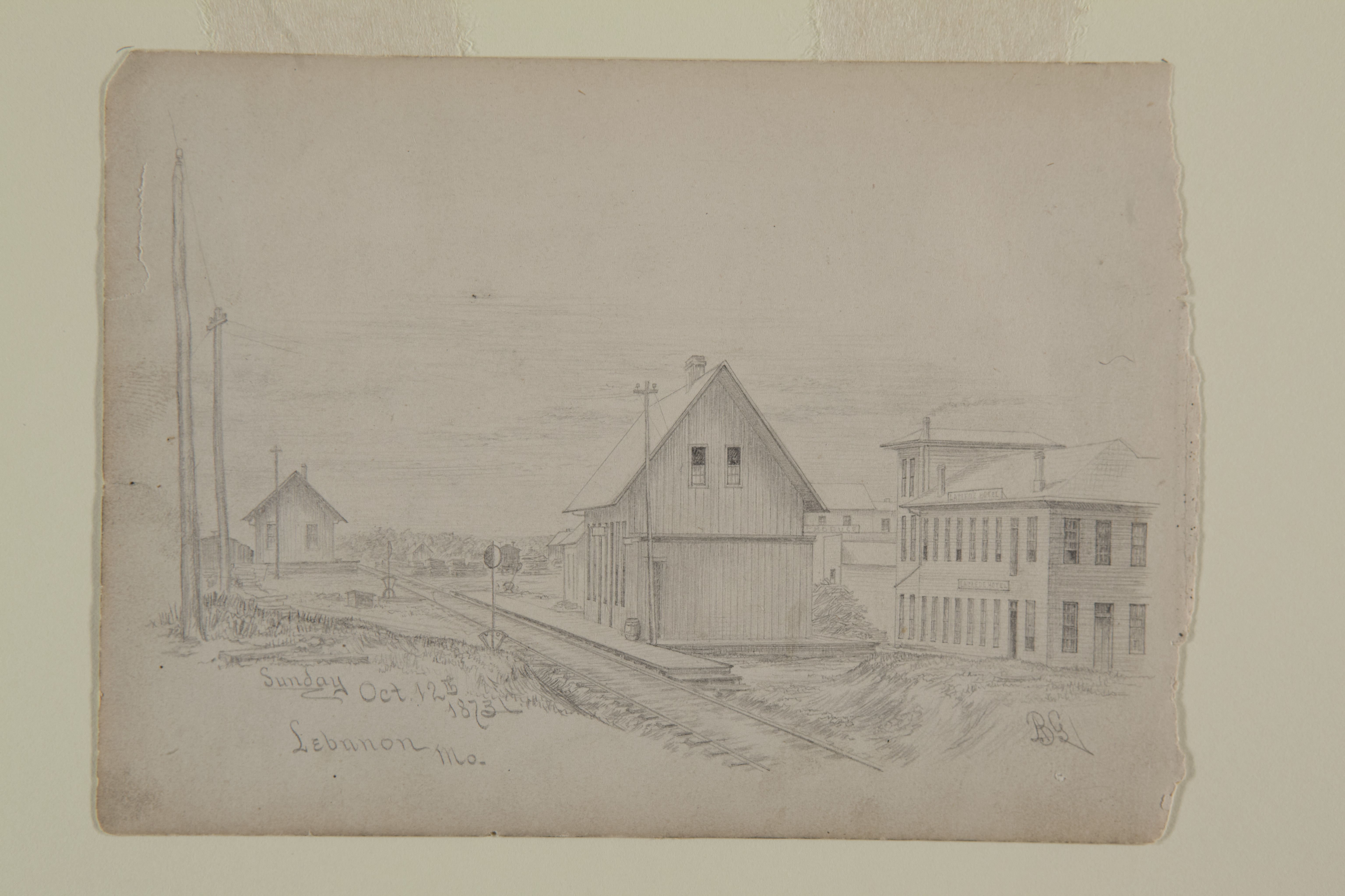 Pencil Drawing of Train Depot in Lebanon Missouri by A.B. Greene. Greene was a late 19th century commercial artist from St. Louis who specialized in ink and pencil drawings of architecture, landscapes, and portraits.Title: Pencil Drawing of Train Depot in Lebanon Missouri by A.B. Greene